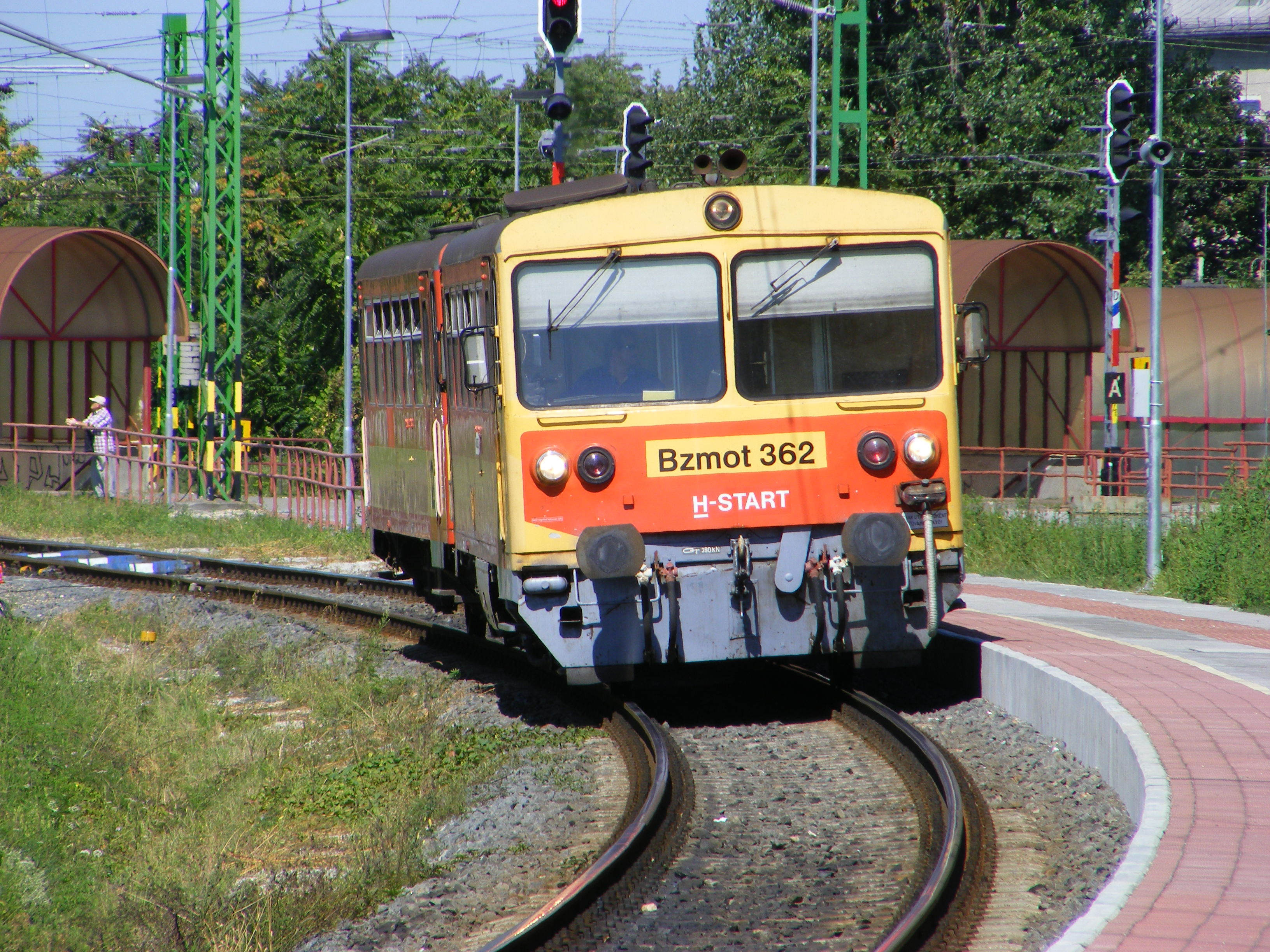 A Györ - Bakonyszentlászló local train consisting of a Bzmot class railcar and a trailer arrives at Györ-Gyárváros.